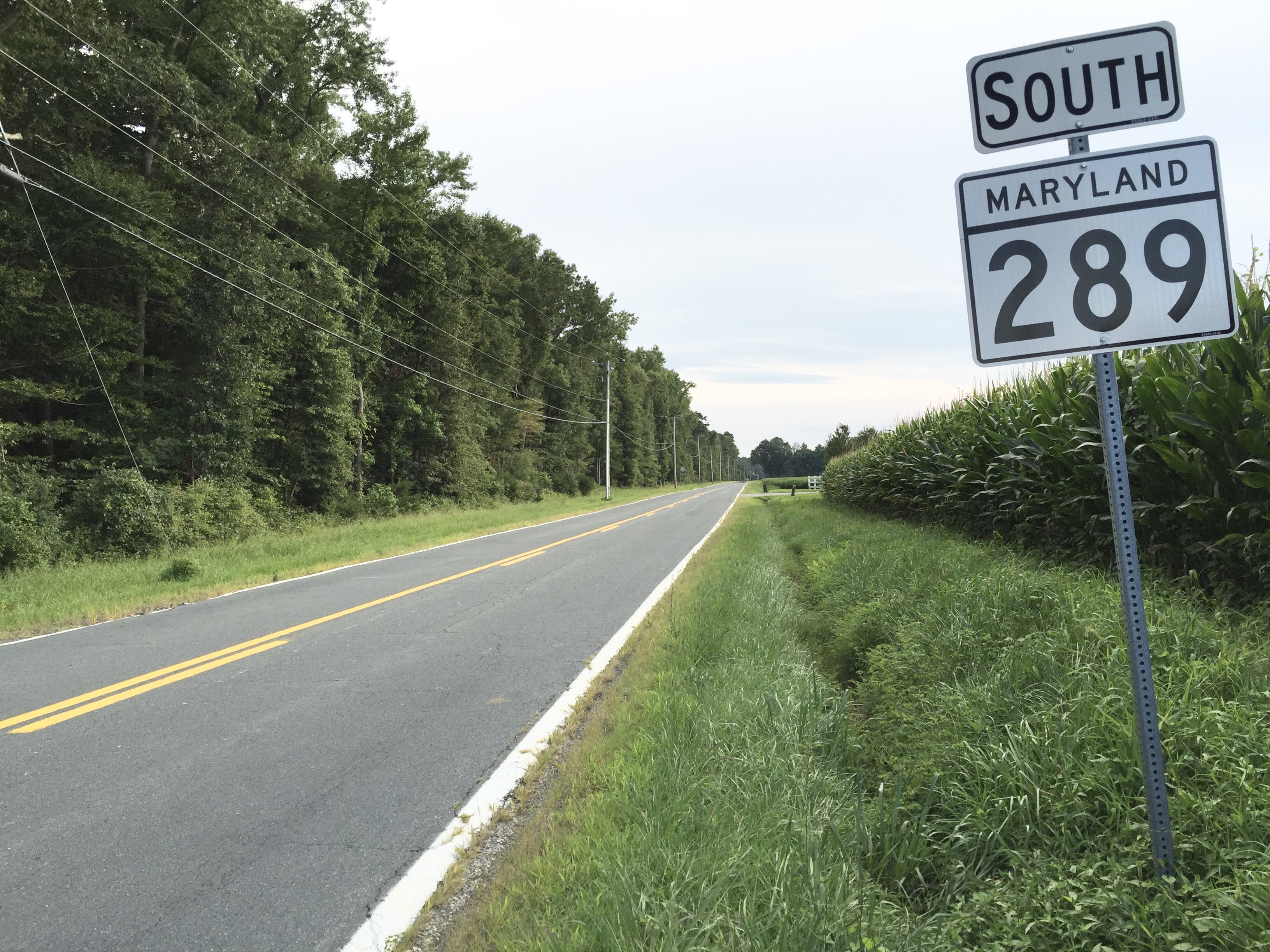 View south along Maryland State Route 289 (Quaker Neck Road) at Quaker Neck Landing Road in Pomona, Kent County, Maryland